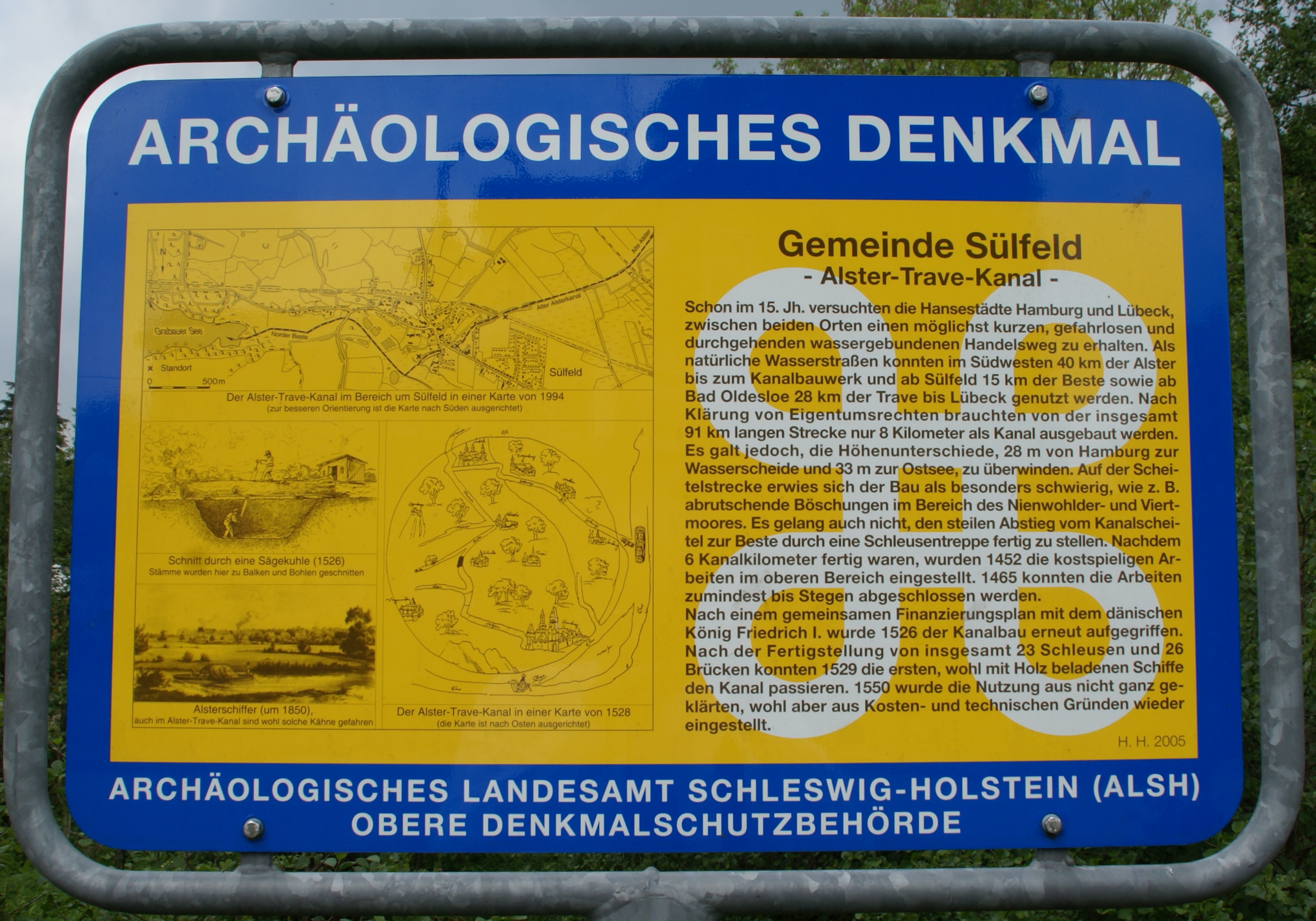 Sülfeld, Germany: Table with information about the canal Alster-Beste